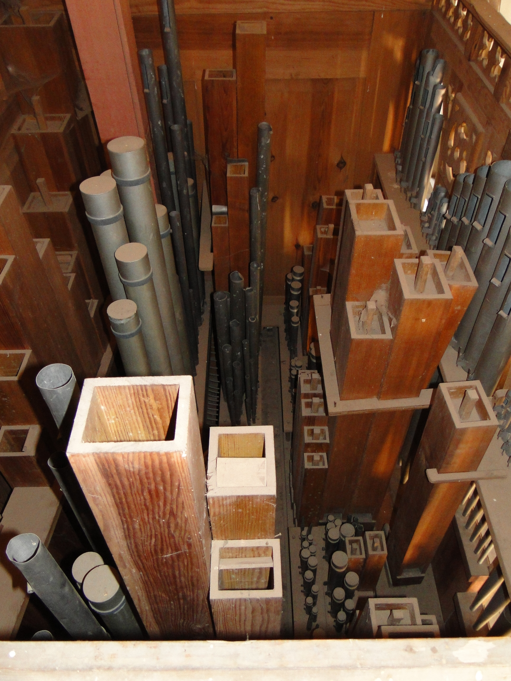 Church in Woosten, district Ludwigslust-Parchim, Mecklenburg-Vorpommern, Germany